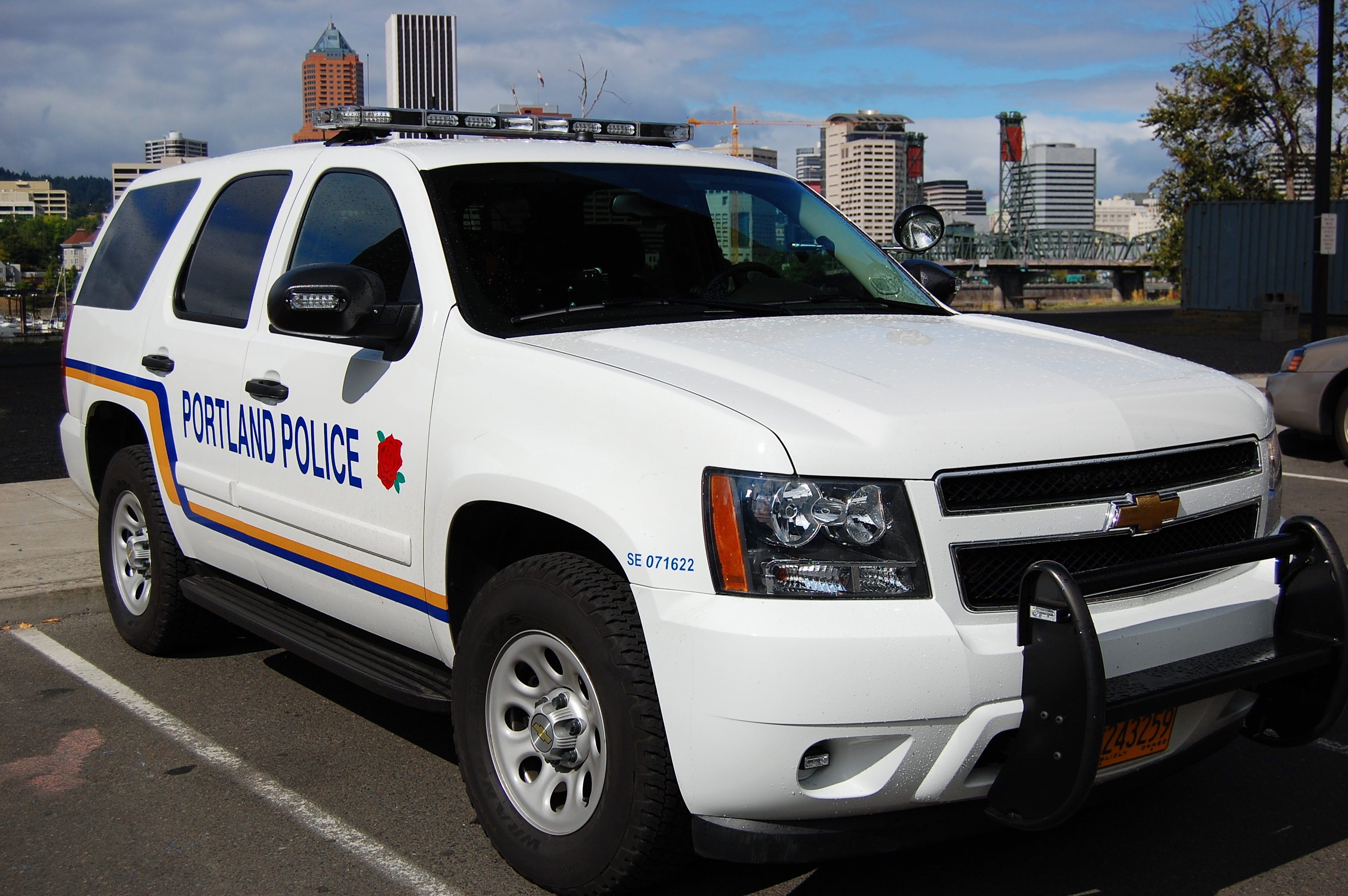 A Chevrolet Tahoe used by the Portland Oregon Police Department